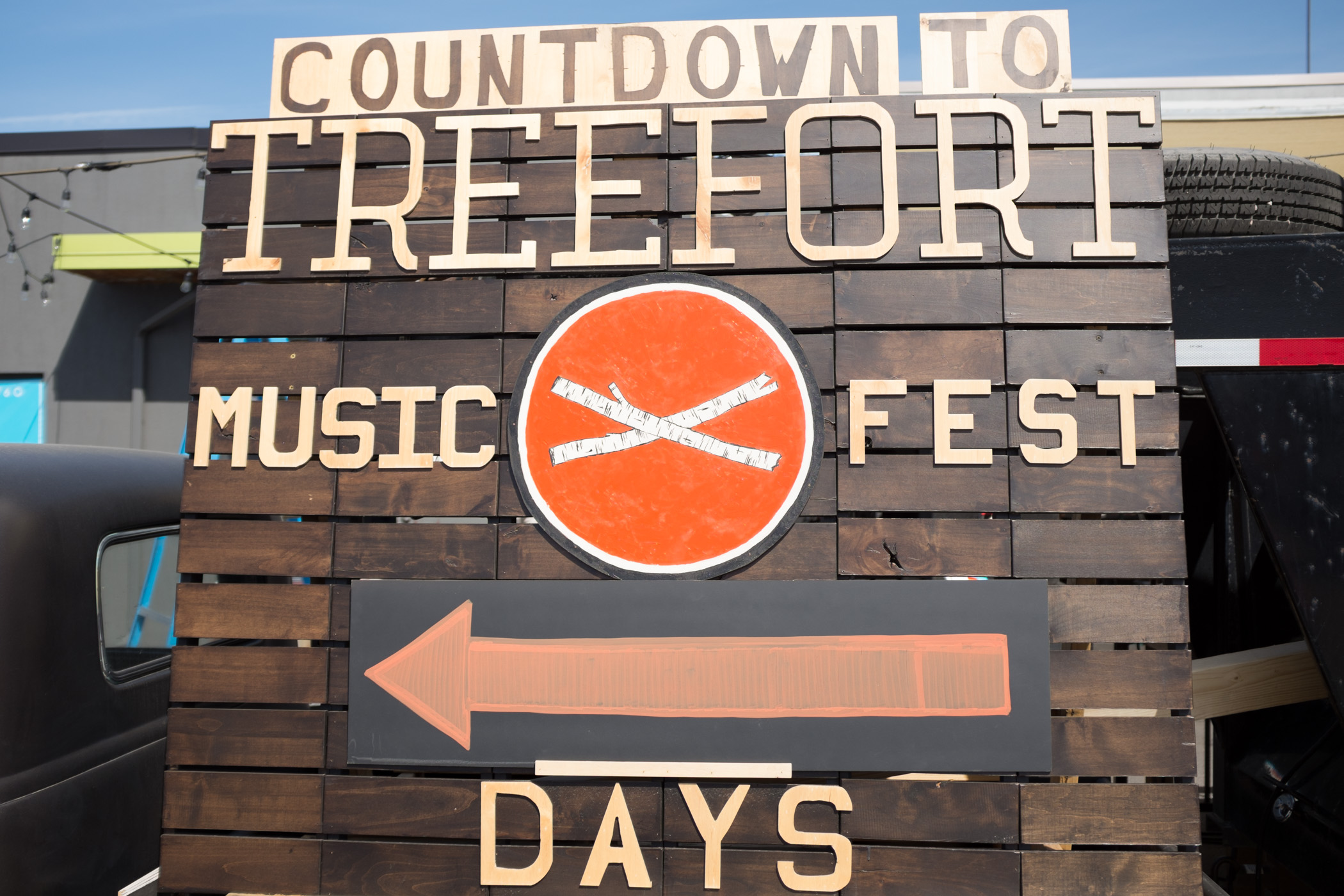 PreFunk-Treefort-Credit-Steel-Brooks-1